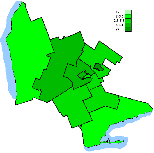 Map made by uploader (User:Earl Andrew); see [1] (question about source) and [2] (response).